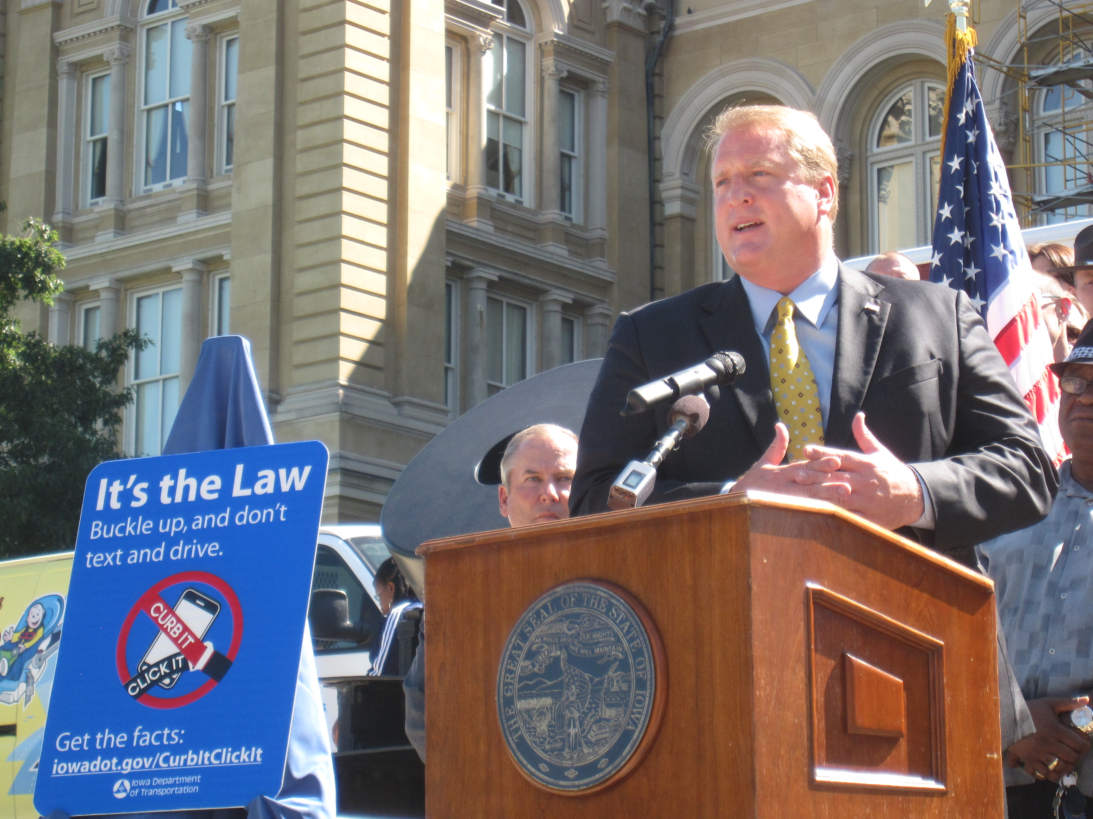 Texting campaign 031